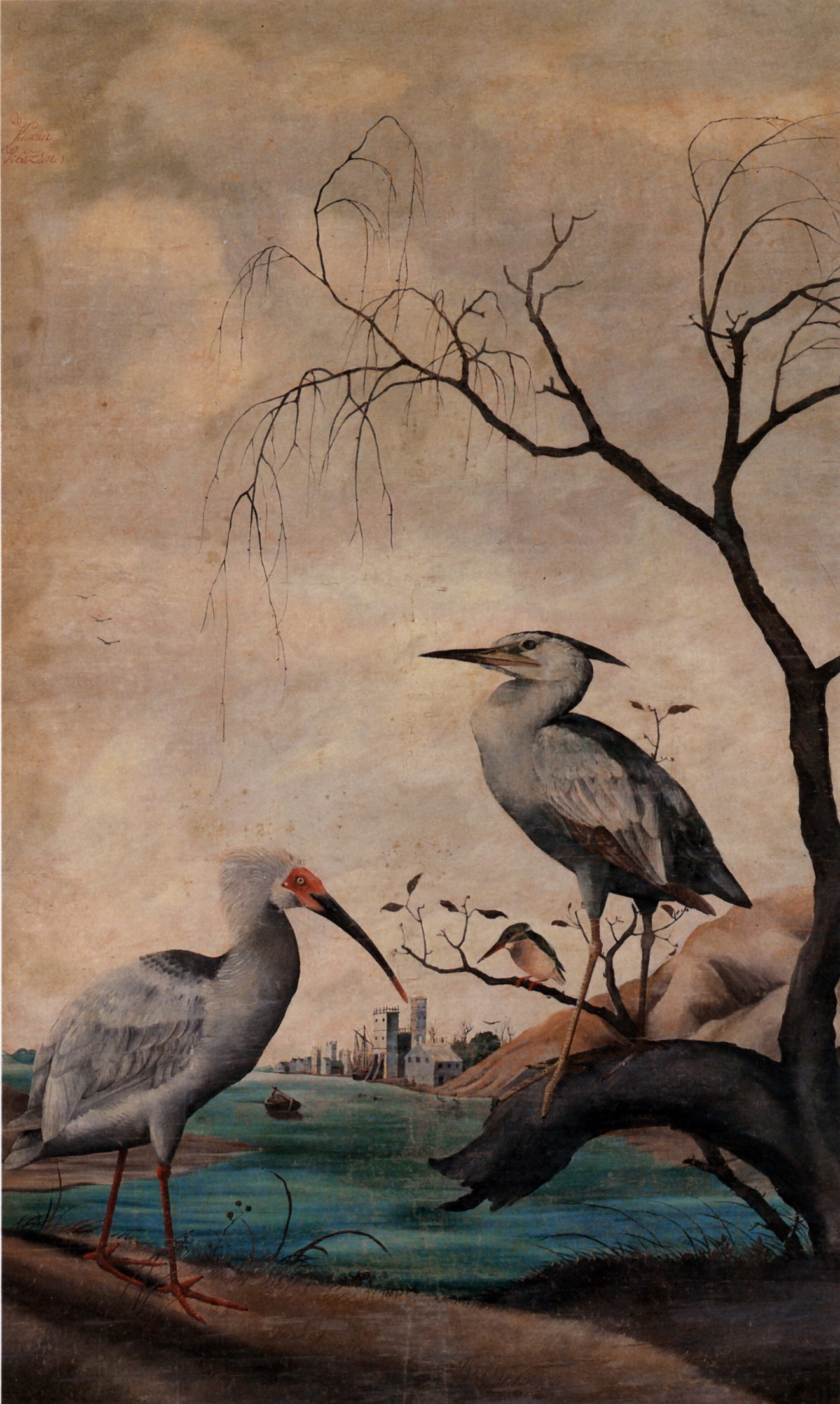 painting of a waterfow,an oil painting